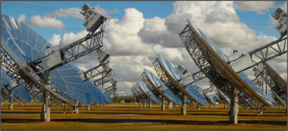 Maricopa Dish-Stirling plant